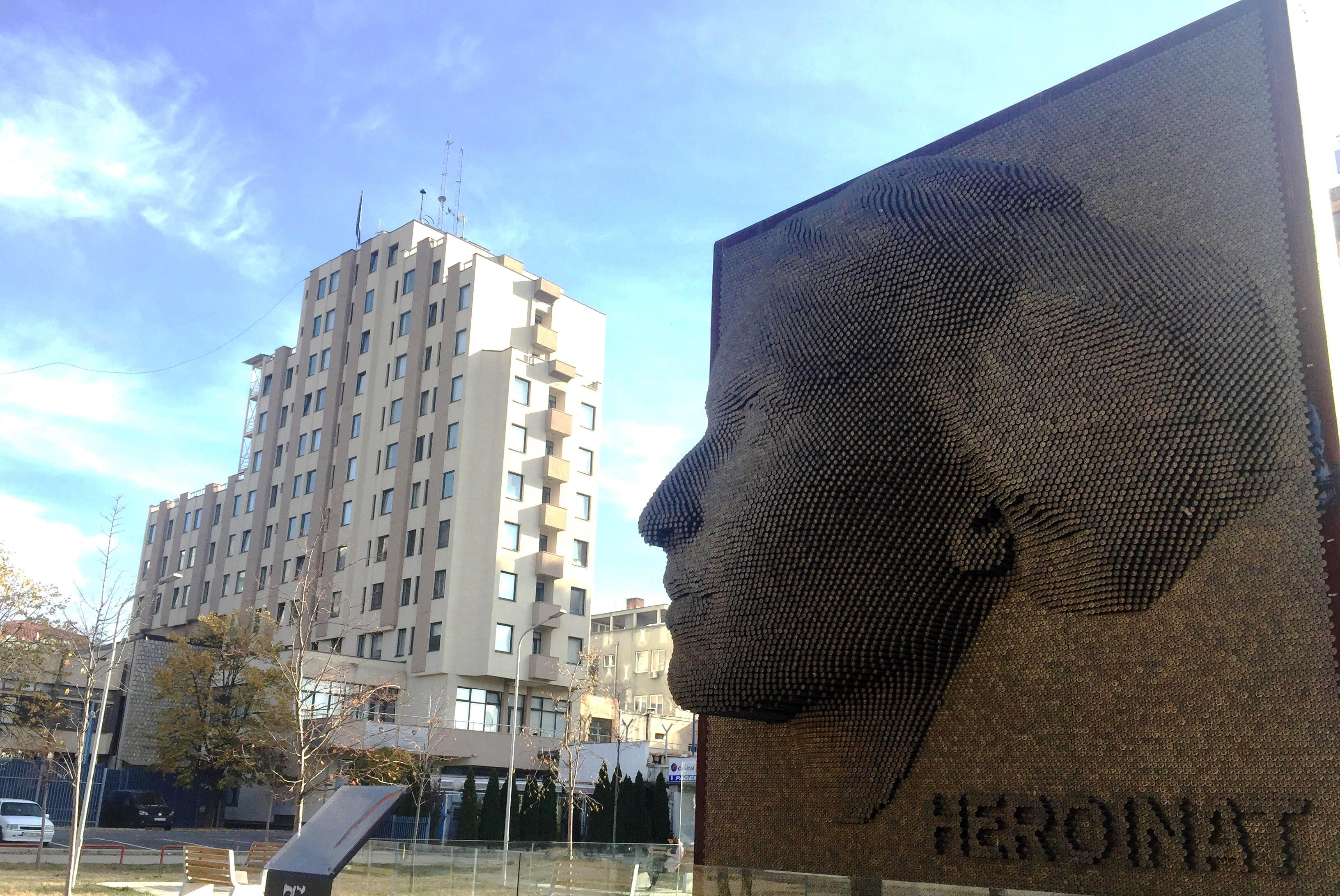 Heroinat Monumental, Pristina